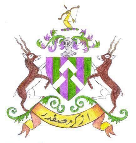 Coat of arms of Radhanpur State This work is in the public domain in India because its term of copyright has expired. The Indian Copyright Act applies in India, to works first published in India. According to The Indian Copyright Act, 1957 (Chapter V Section 25), Anonymous works, photographs, cinematographic works, sound recordings, government works, and works of corporate authorship or of international organizations enter the public domain 60 years after the date on which they were first published, counted from the beginning of the following calendar year (ie. as of 2016, works published prior to 1 January 1956 are considered public domain). Posthumous works (other than those above) enter the public domain after 60 years from publication date. Any other kind of work enters the public domain 60 years after the author's death. Text of laws, judicial opinions, and other government reports are free from copyright. Photographs created before 1958 are in the public domain 50 years after creation, as per the Copyright Act 1911. This file may not be in the public domain outside India. The creator and year of publication are essential information and must be provided. See Wikipedia:Public domain and Wikipedia:Copyrights for more details. This image shows a flag, a coat of arms, a seal or some other official insignia. The use of such symbols is restricted in many countries. These restrictions are independent of the copyright status.